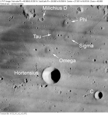 LO-IV-133H image of Hortensius lunar crater